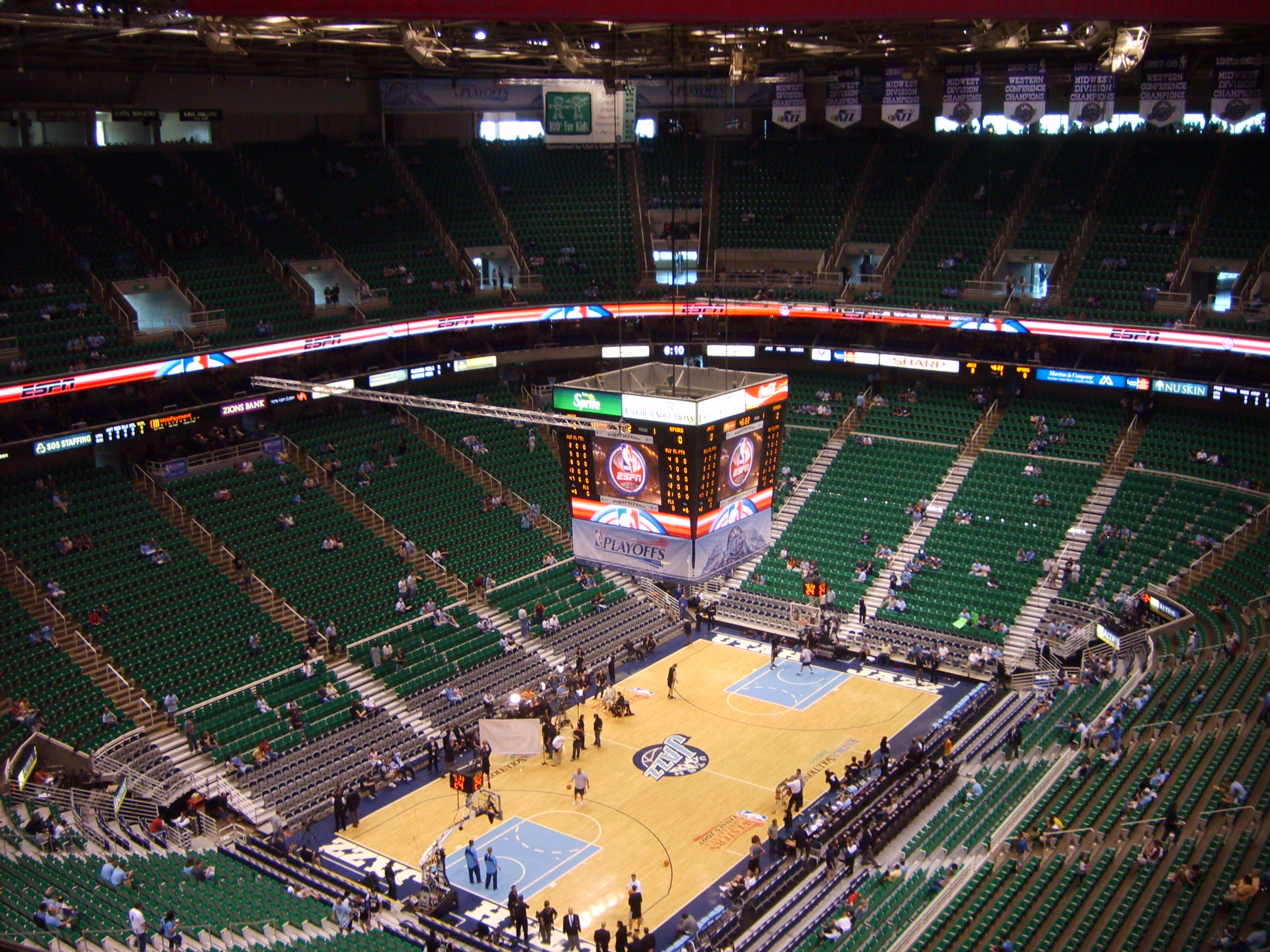 EnergySolutions Arena in Salt Lake City, Utah.